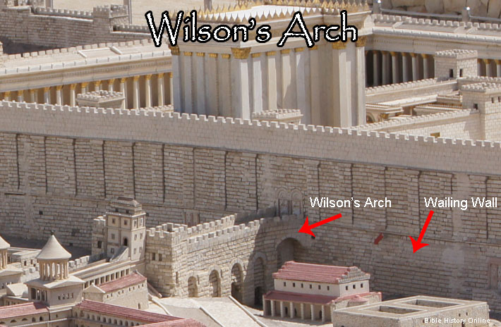 Wilson's Arch, once stood a larger structure that gives the entrance to the Temple Mount on the western section of the plaza.